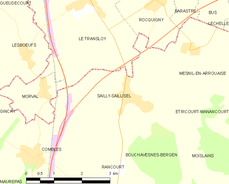 Map of French municipality Sailly-Saillisel